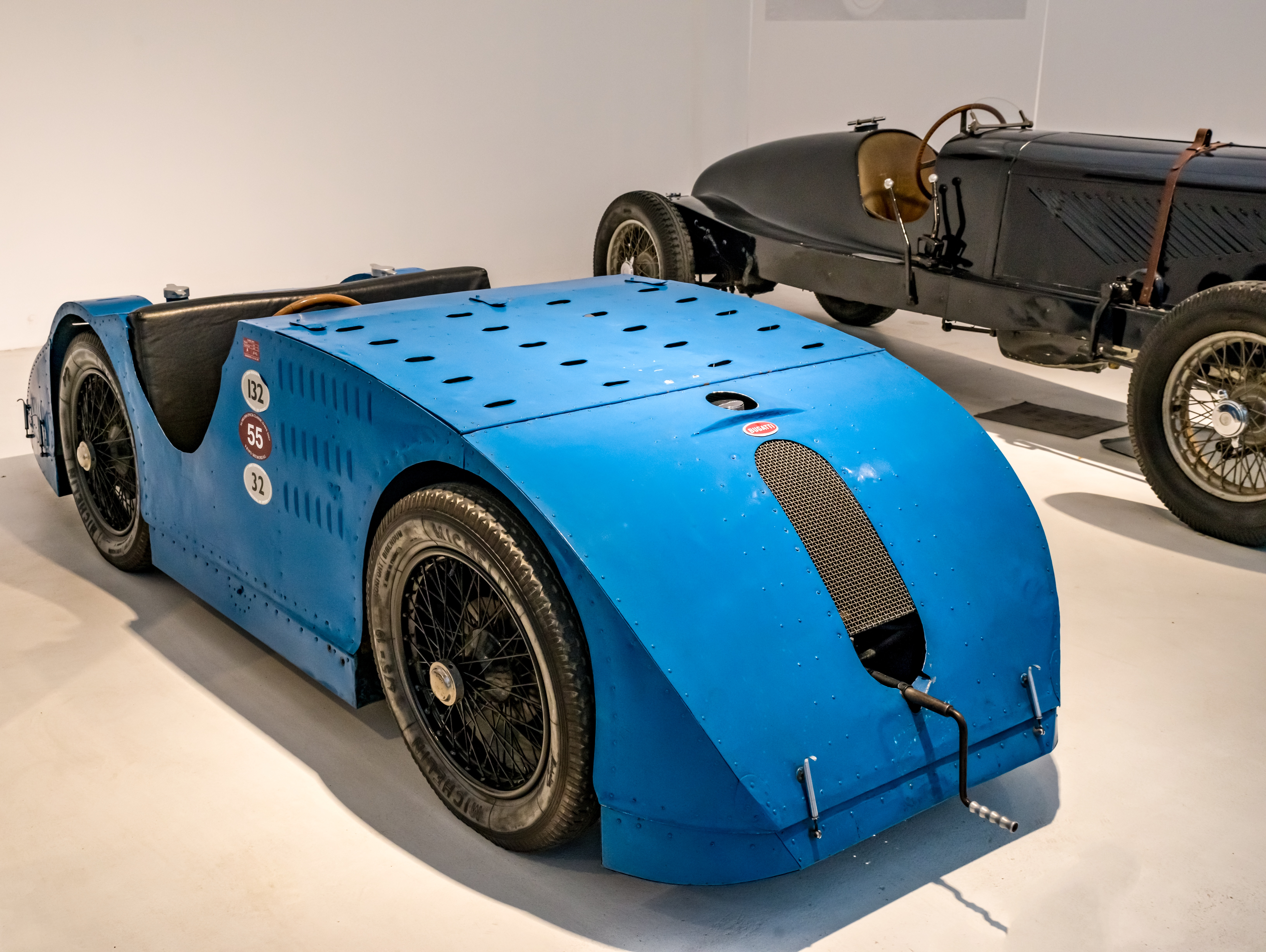 pictures from the Cité de l’Automobile – Musée National – Collection Schlump in Mulhouse, France ptictures from the 10. may 2018